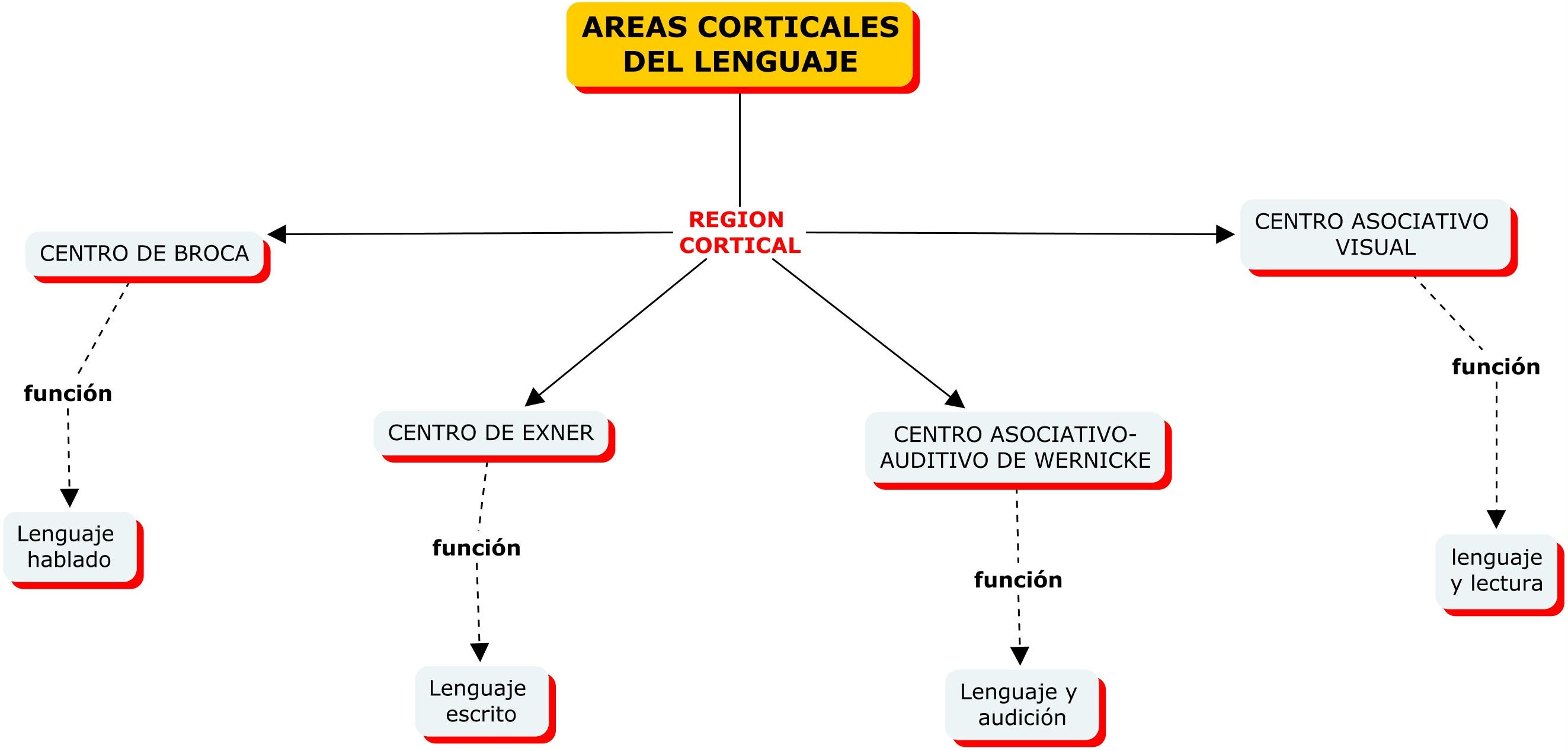 mapa conceptual areas del lenguaje